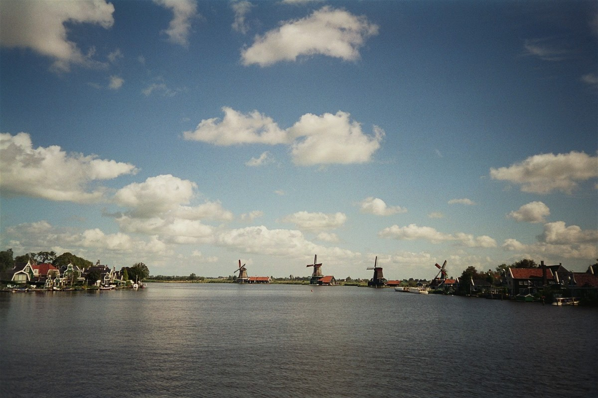 Photograph of the river Zaan in the Netherlands, taken from the Julianabrug ("Queen Juliana bridge") in a roughly northerly direction. The four windmills are part of the "Zaanse Schans".